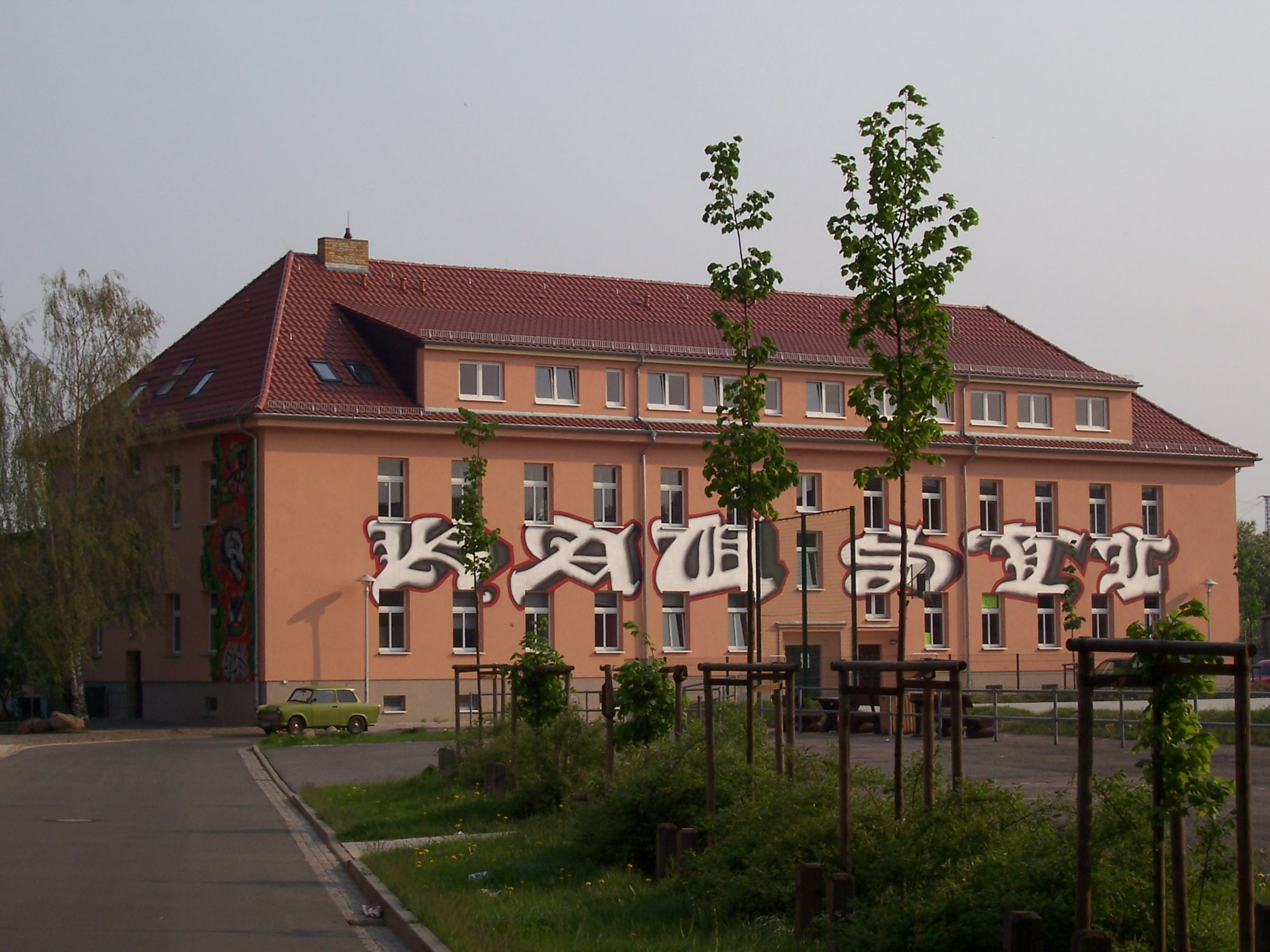 youth club Haus VI in Eilenburg